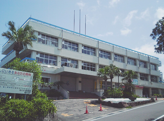 Kumage Subprefecture Office in Kagoshima Preferture, Japan